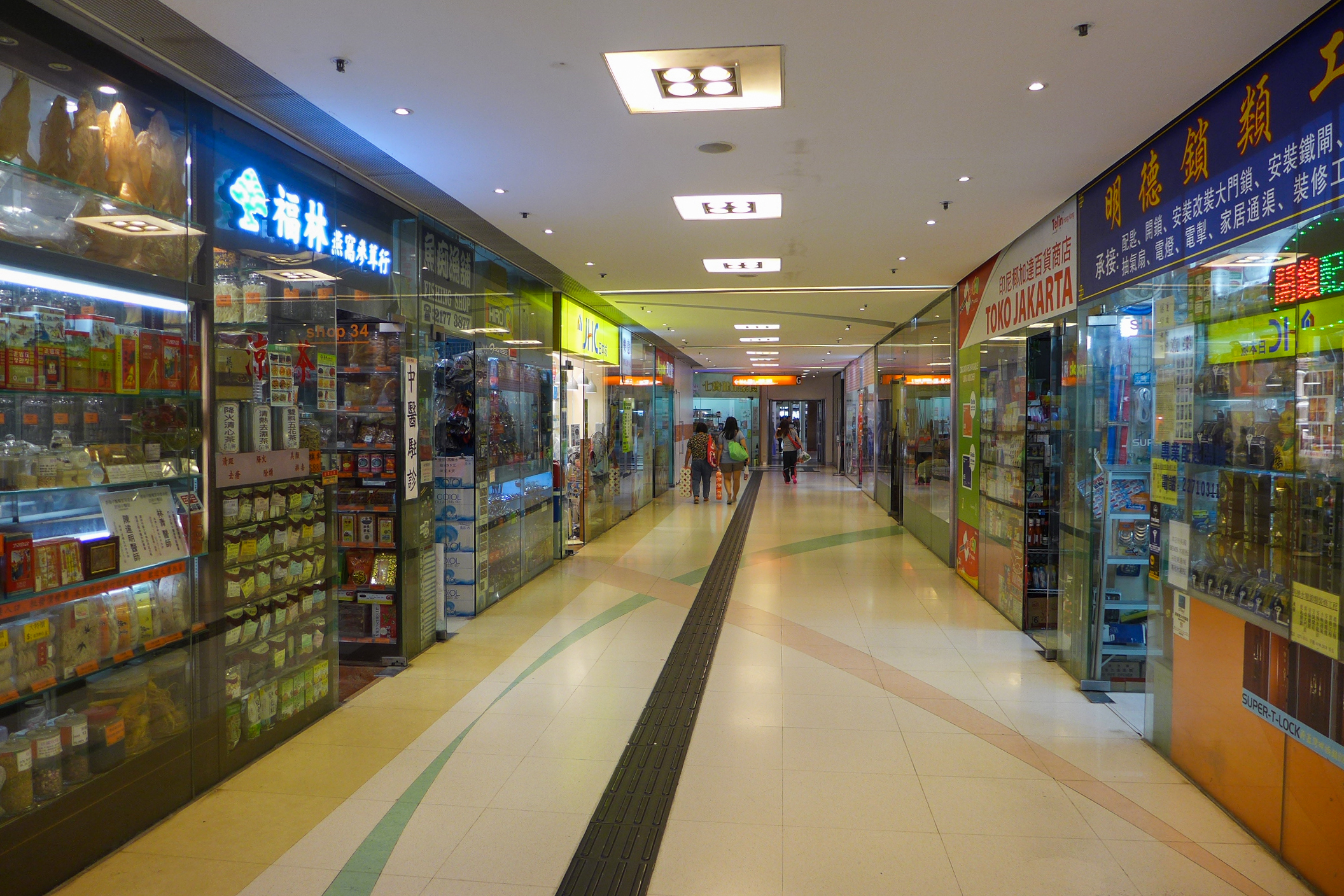 Ming Tak Shopping Centre GF Access